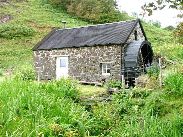 Kildonan Mill. This restored mill was built soon after the 1745 uprising by the chief of Clanranald in an attempt to introduce a cash economy onto Eigg in order to control the islanders. On the chief's orders all quern stones on the island were destroyed and all oats had to be ground at the mill.